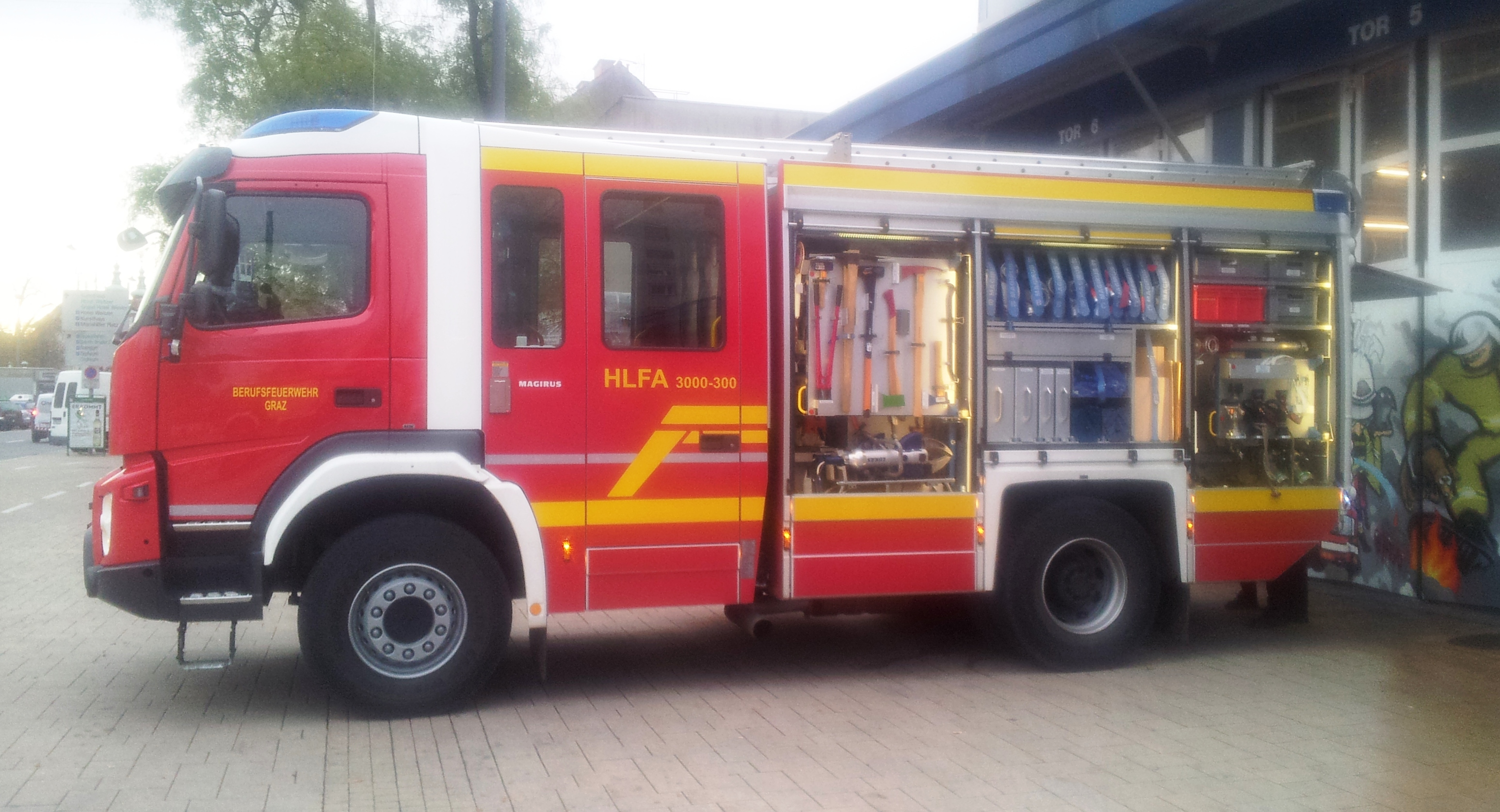 Fire eingine HFLA 3000 of the carrer fire brigade in Graz